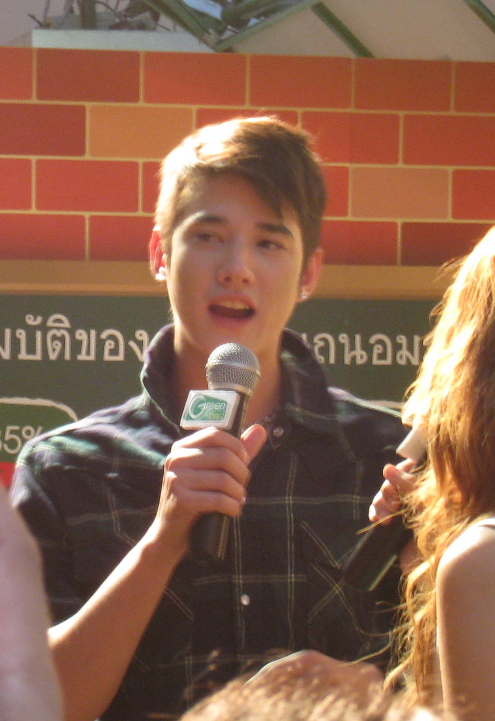 Mario Maurer at Book expo 2008